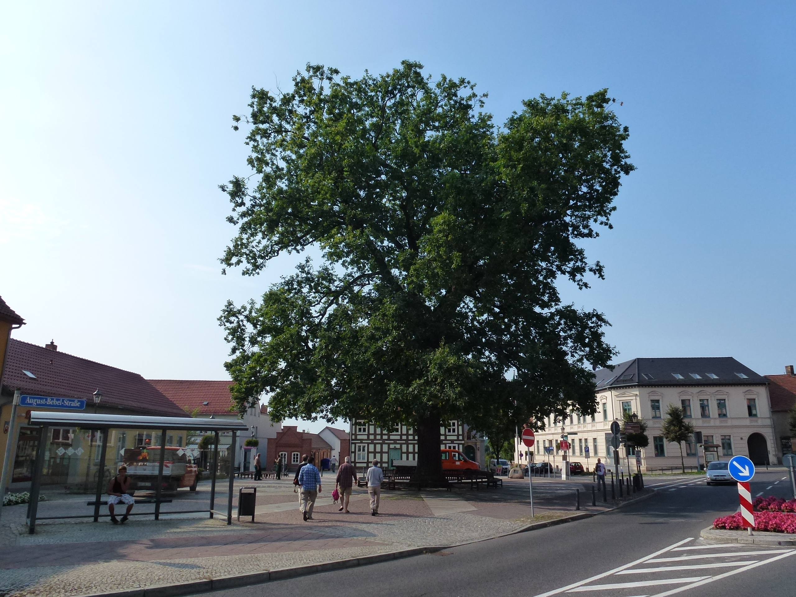 Biesenthal Kaisereiche